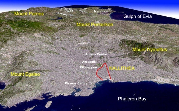 Kallithea on the simulated view of Greater Athens from above. Image courtesy NASA/GSFC/MITI/ERSDAC/JAROS, and U.S./Japan ASTER Science Team.